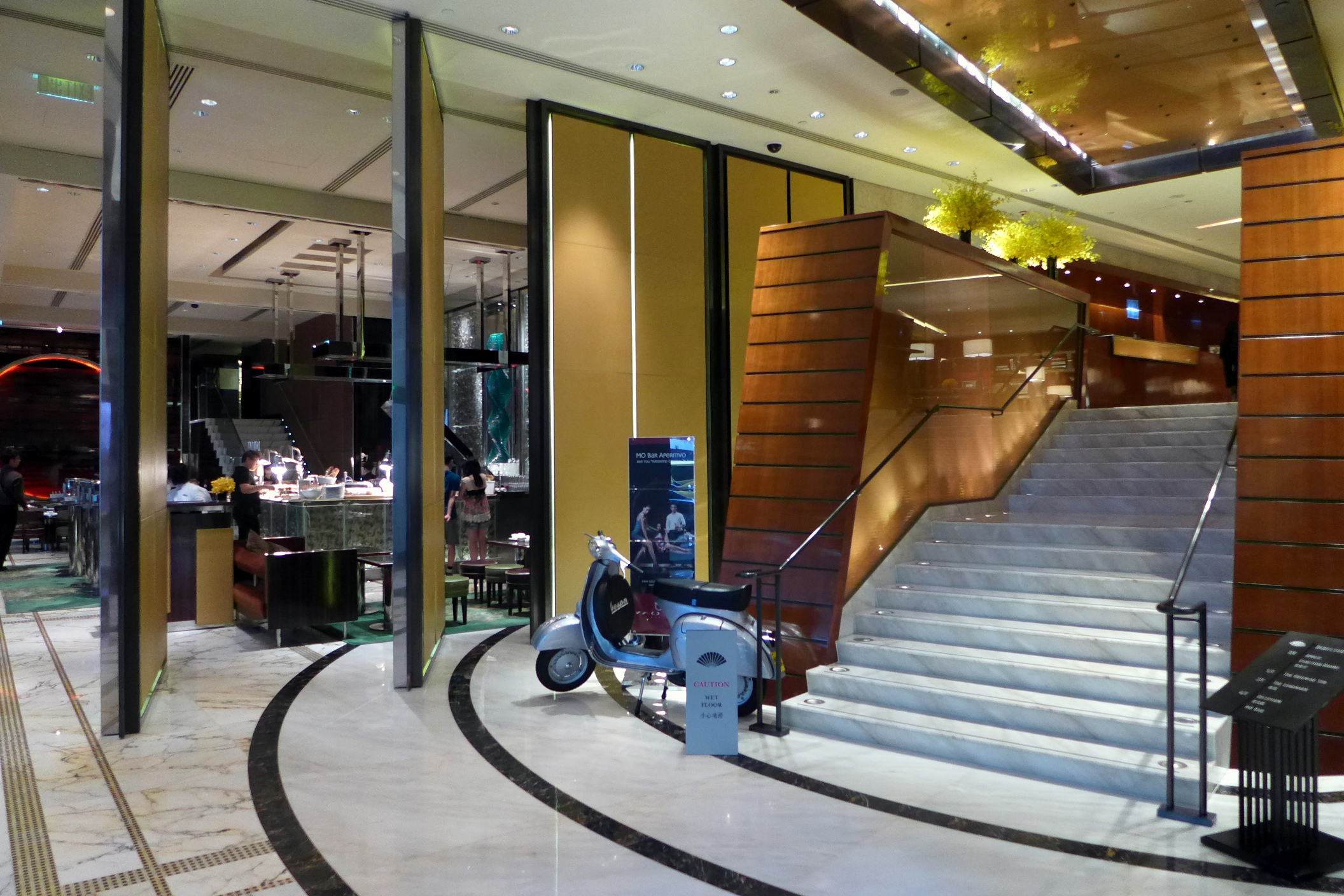 The Landmark Mandarin Oriental Hotel Lobby